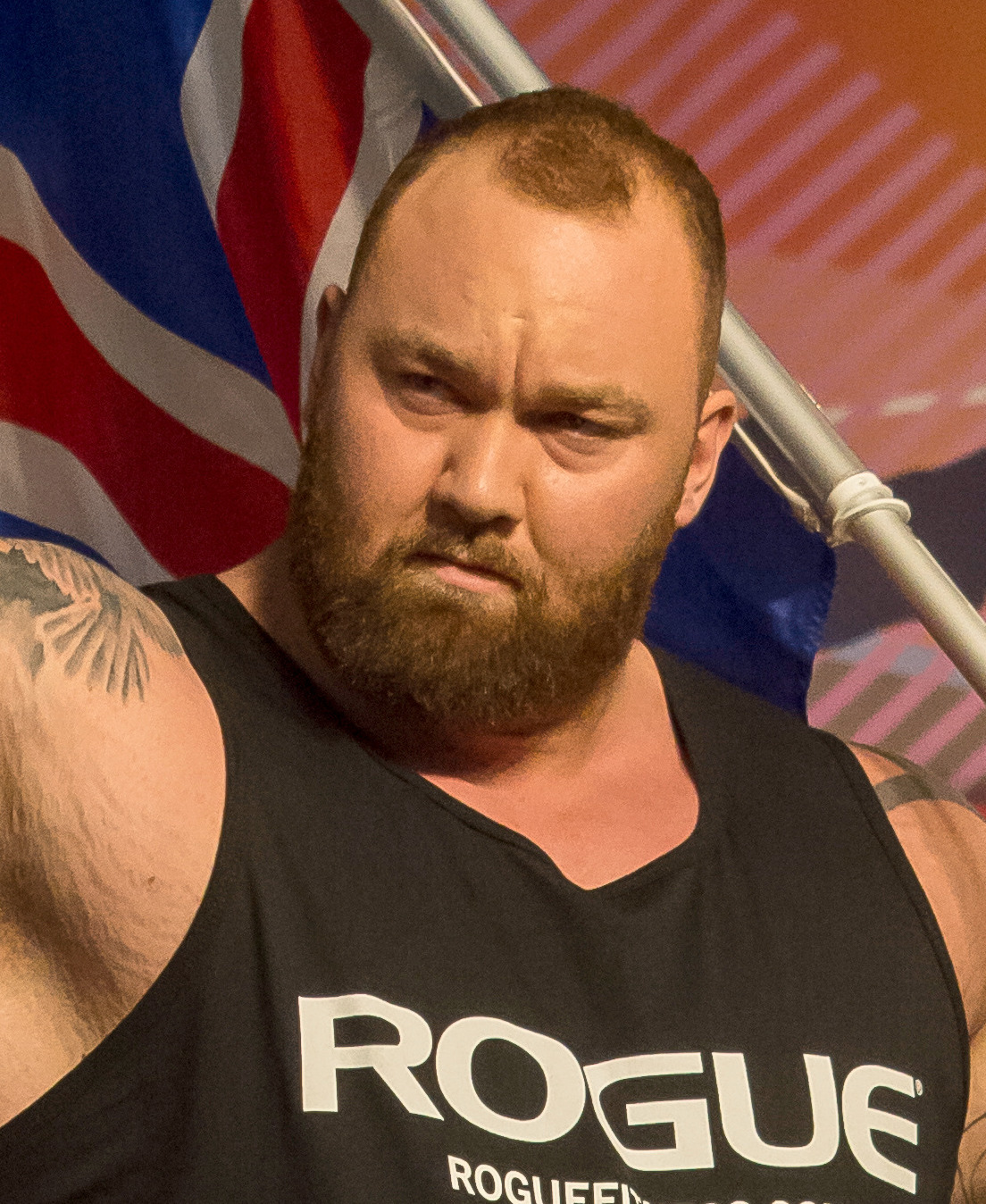 Aronald Classic Coulumbus, Ohio USA 2017